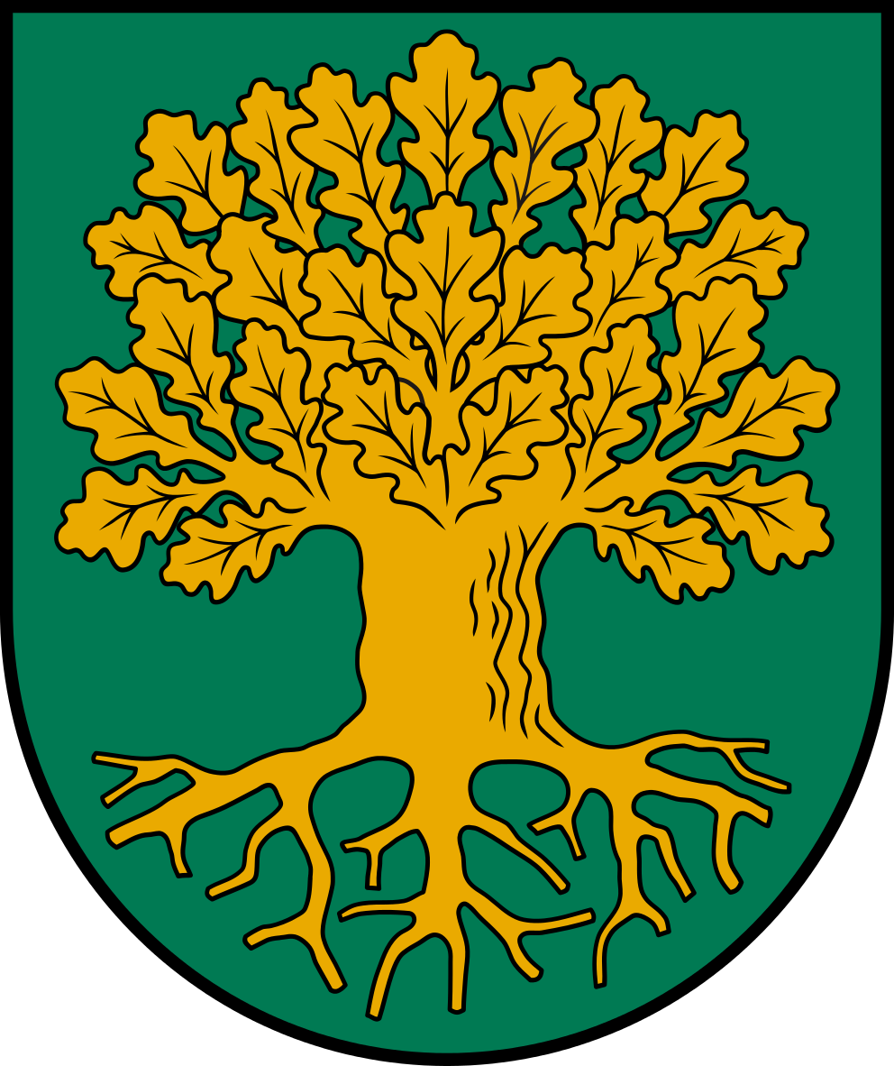 Coat of arms of Sēja Municipality, Lativa